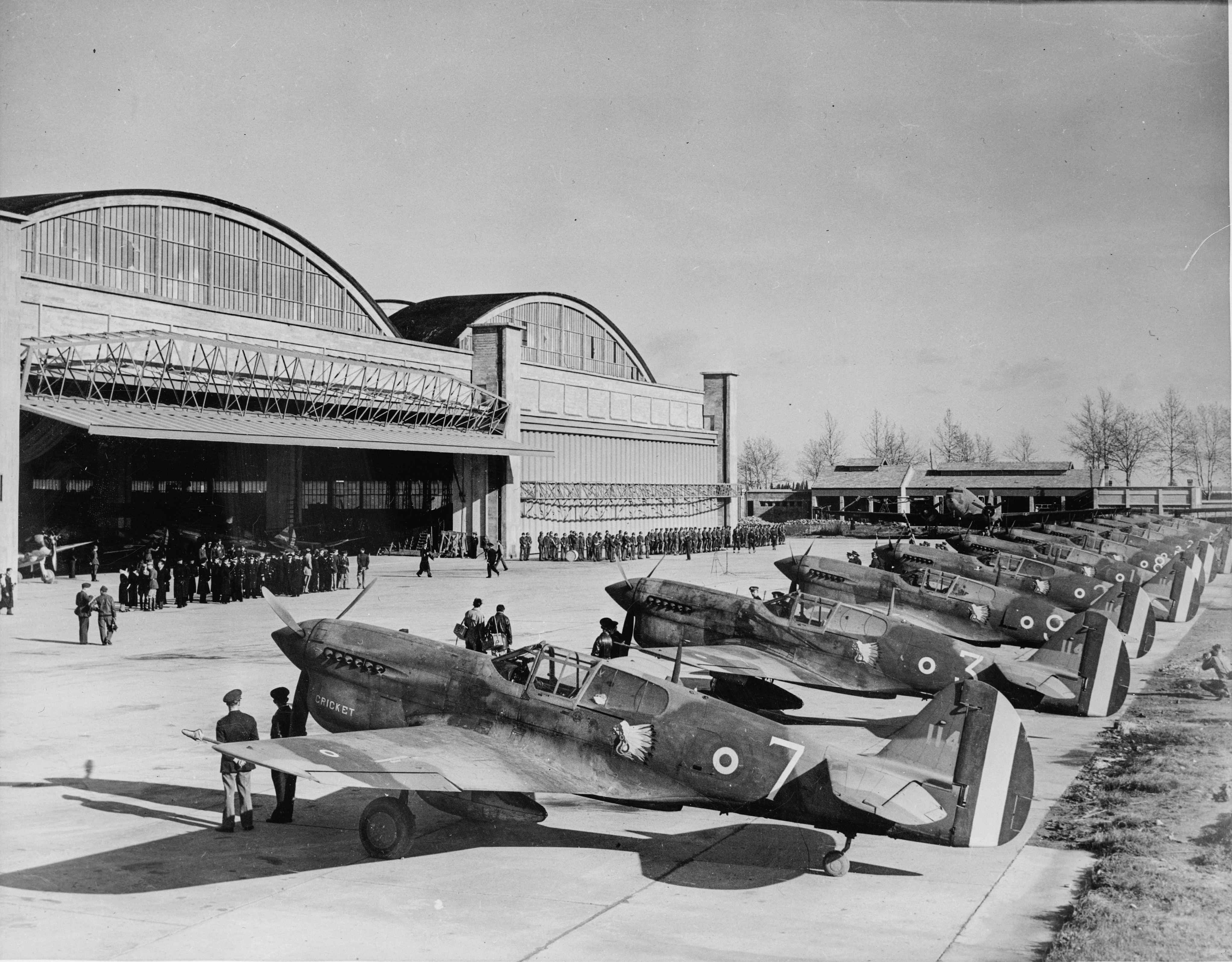 12 Curtiss P-40F Warhawk fighters on 9 January 1943 in Casablanca during a ceremony which officially transferred these former USAAF 33rd Fighter Group P-40s to the French in North Africa. In reality, these aircraft had been handed over to the Armee de l'Air on 25 November 1942. The recceiving French unit was Groupe de Chasse GC II/5, better known as the Lafayette Escadrille. Note the Curtiss Hawk 75 and at least two Dewoitine D.520s inside the hangar, still wearing Vichy-French identification stripes. A Douglas C-47 Skytrain is visible in the background. Official caption: "Line-up of 13 P-40 United States Warhawks which Americans recently presented to the Fighting French air forces at an airport somewhere in North Africa on behalf of the people of the United States."